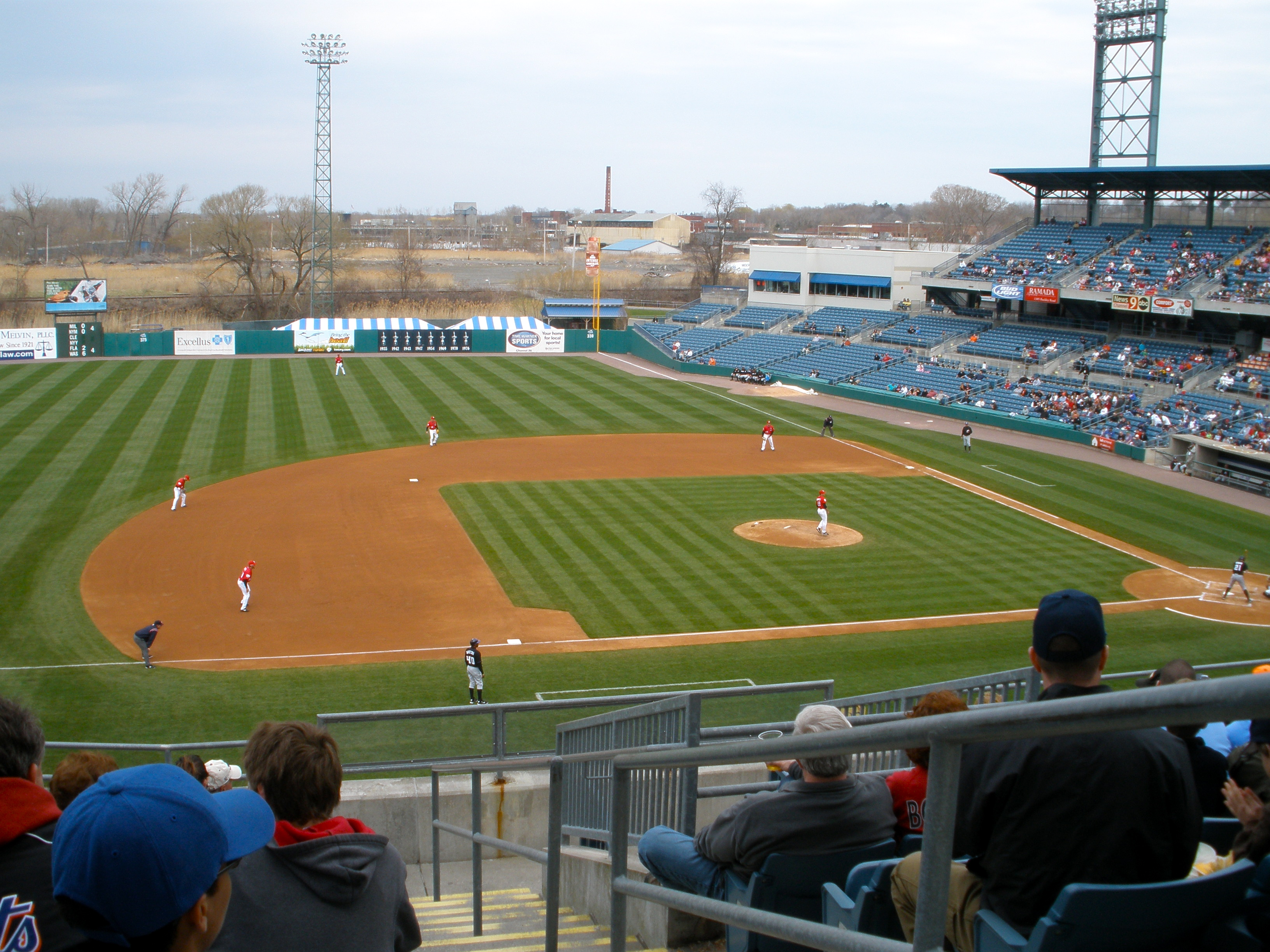 A Syracuse Chiefs game from 2009-04-18 at Alliance Bank Stadium